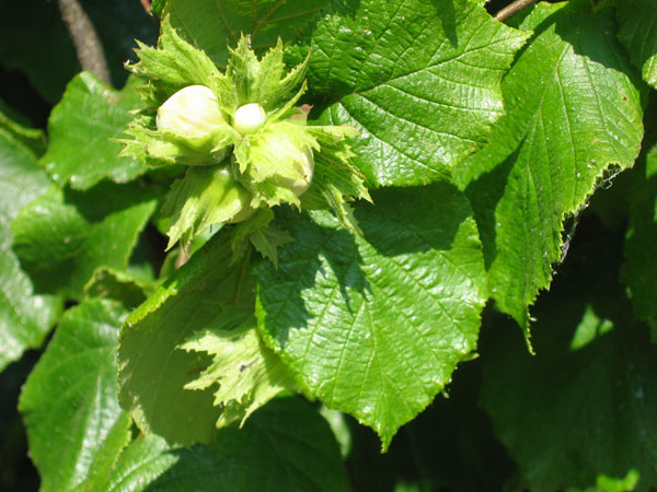 Hazel species / hybrid Corylus sp. (? hybrid C. avellana × C. maxima) Common hazel shrub, leaves and nuts.